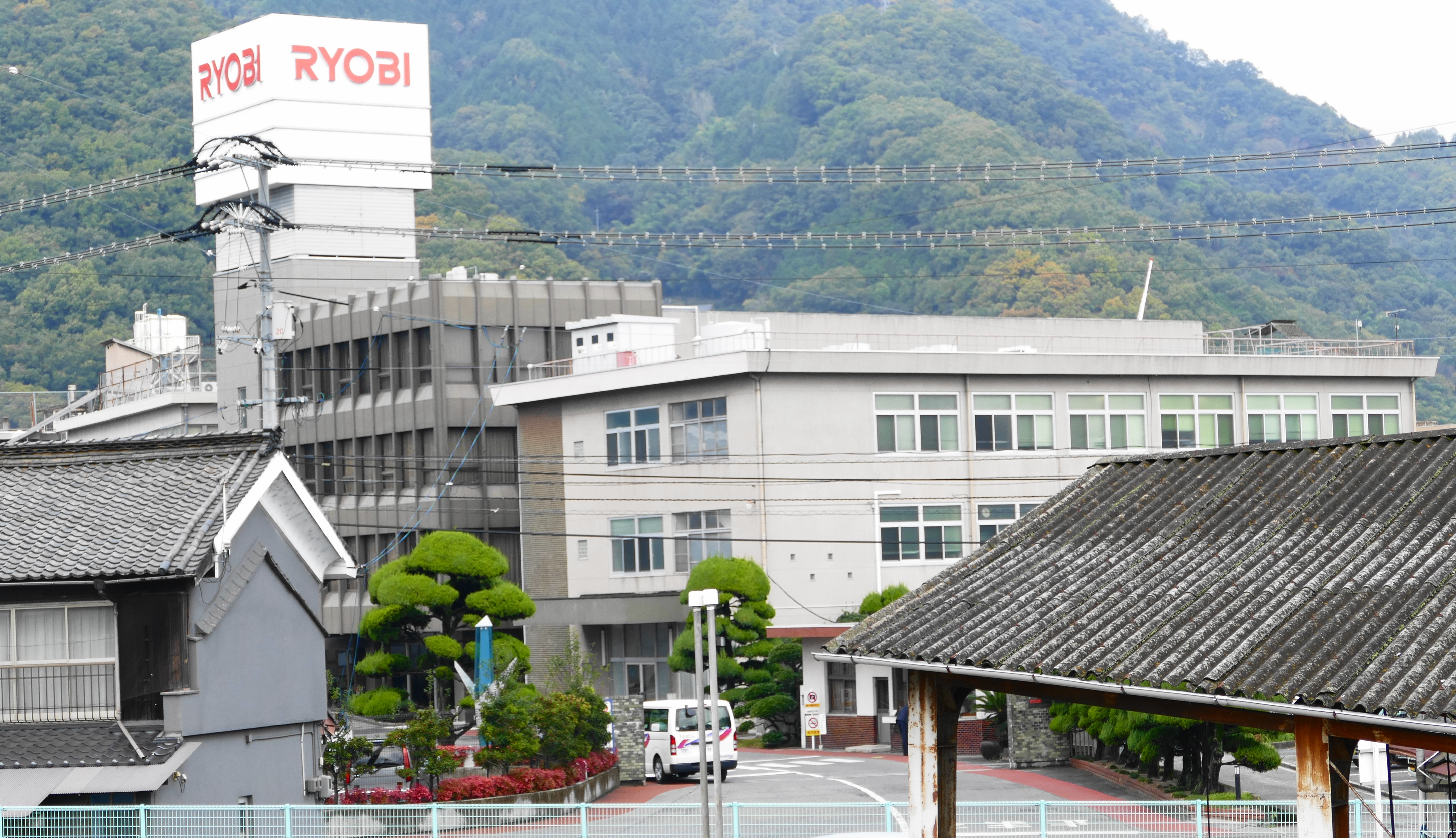 Headquarters of RYOBI LIMITED,Hiroshima prefecture,Japan